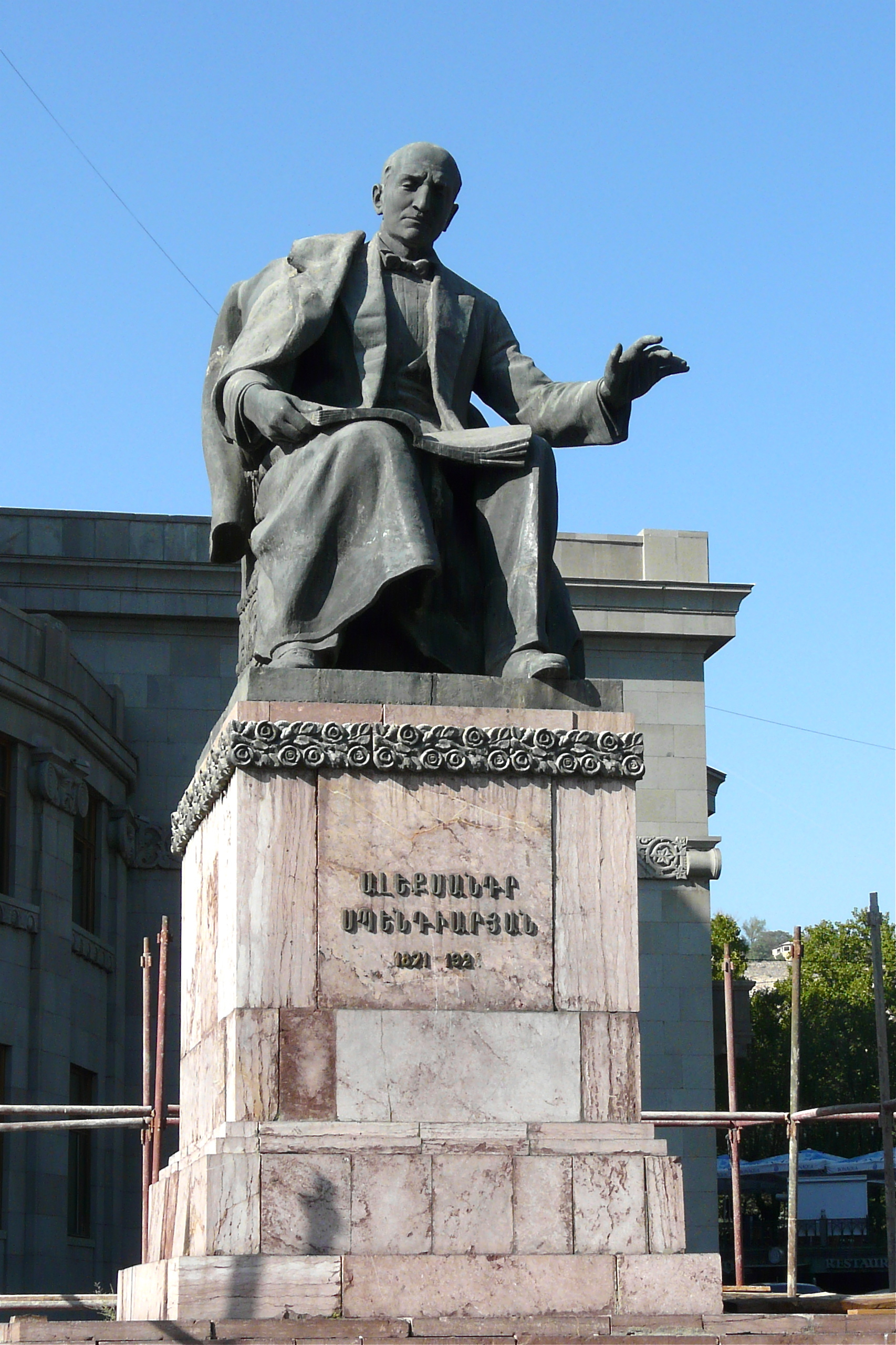 Alexander Spendiaryan's statue in Yerevan 6/95.5